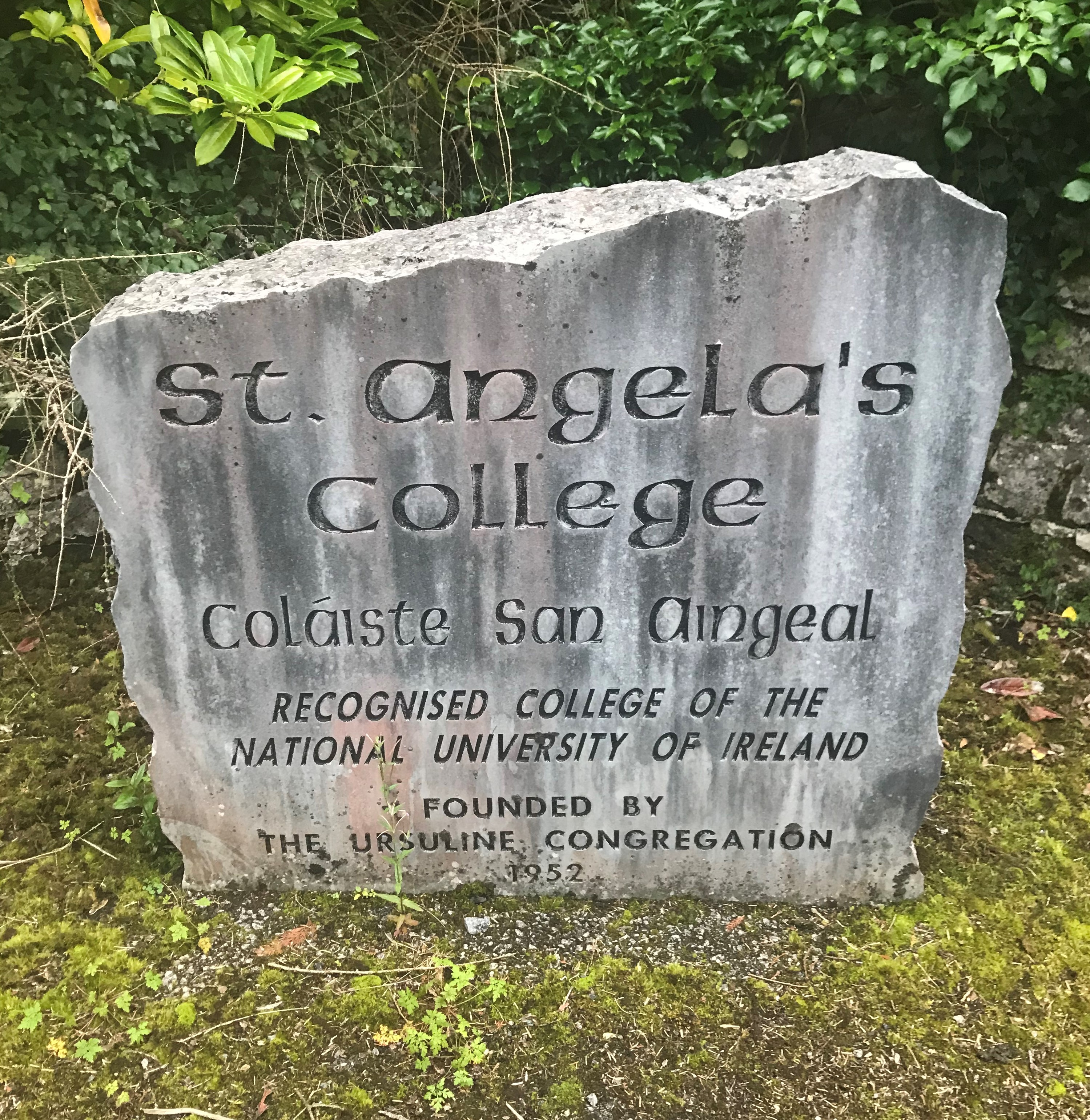 A headstone commemorating the recognition of St. Angela's, Sligo as a NUI college.